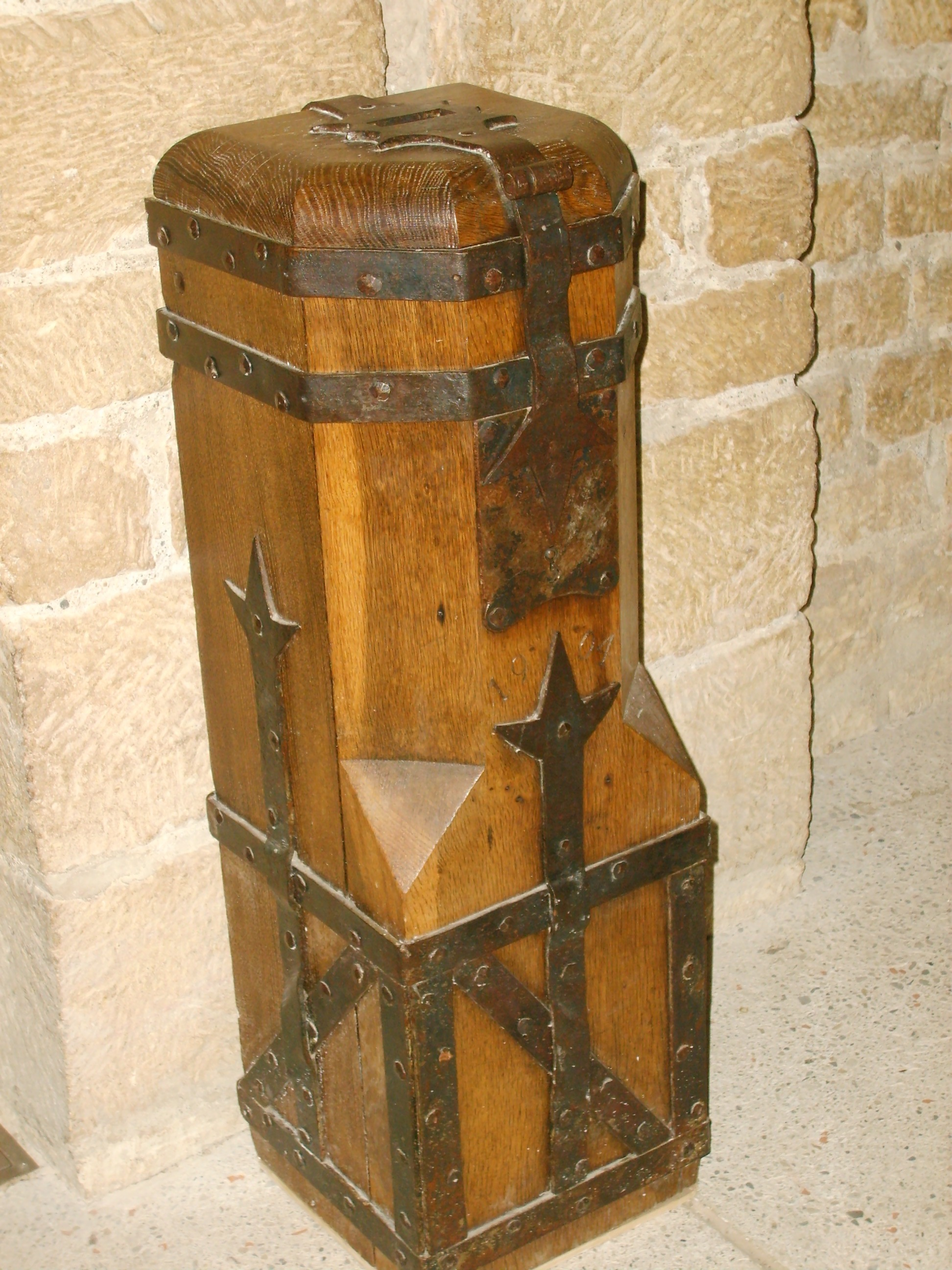 Church box in Romainmôtier (Canton of Vaud) in Switzerland. Publish by= User:Stephane8888 Self made